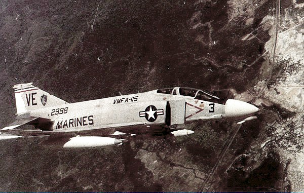 A McDonnell F-4B Phantom II (BuNo 152998) of Marine Fighter Attack Squadron 115 (VMFA-115) "Silver Eagles" over Vietnam on Christmas 1969.